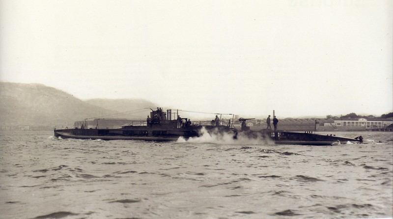 French submarine Artémis